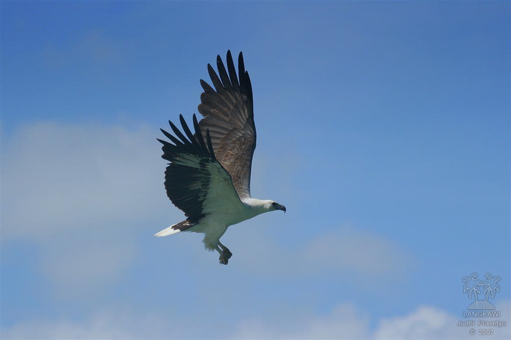 Haliaeetus leucogaster. White-bellied Sea Eagle. One of the bird species found in Langkawi.